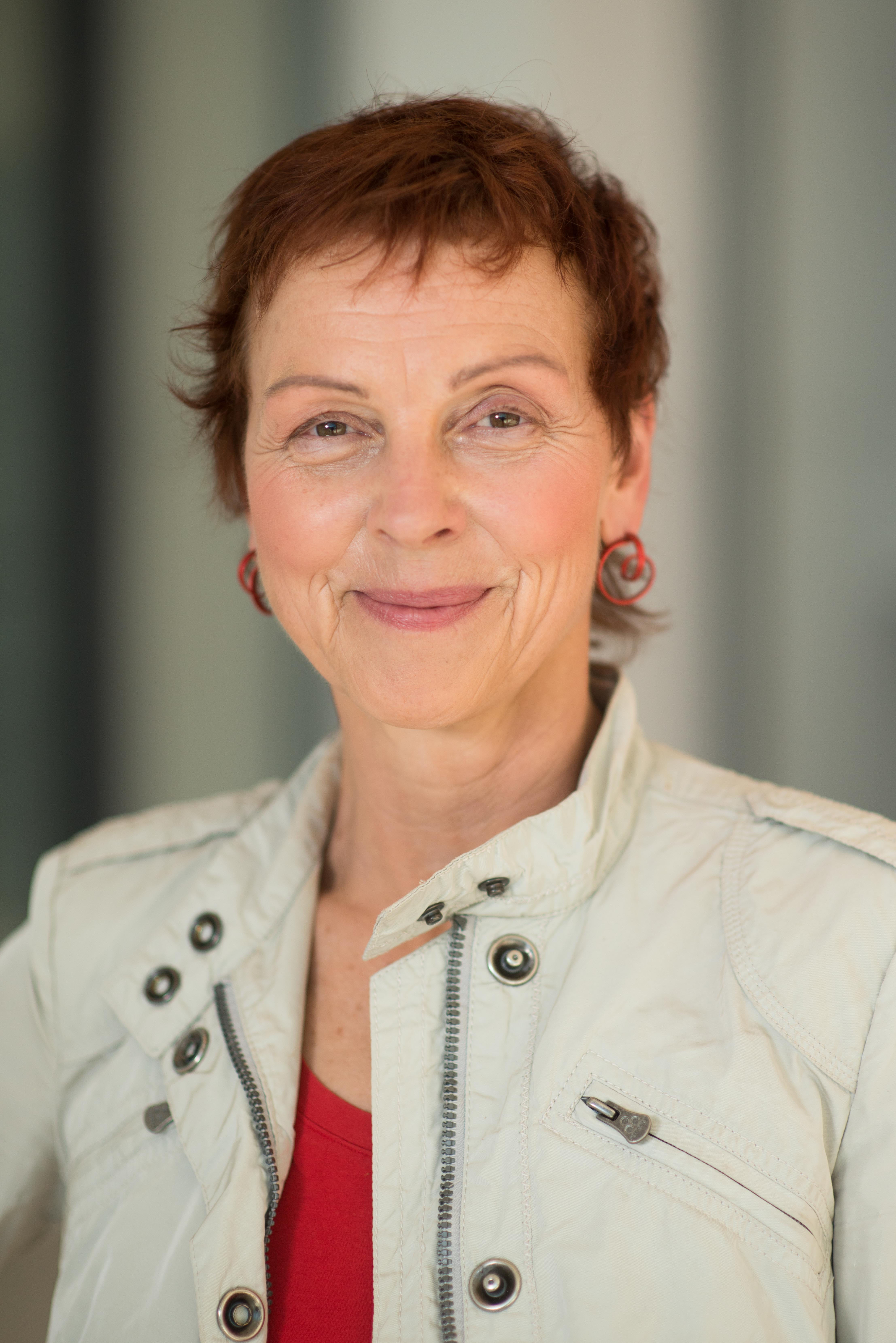 Member of German Parliament Sabine Leidig